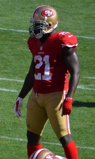 Frank Gore in 2013 season debut vs. Green Bay Packers